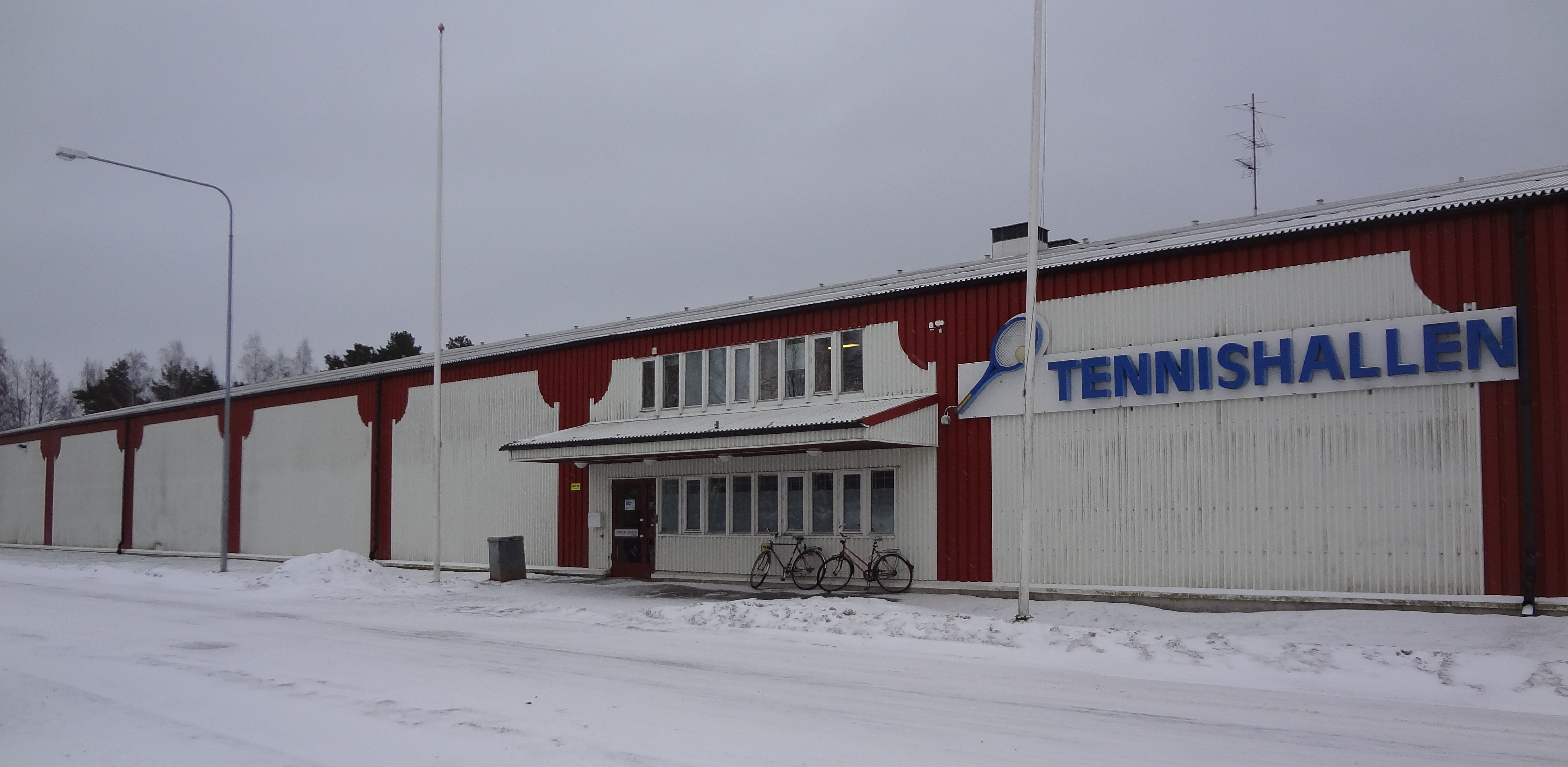 Tennis court in Eskilstuna, Sweden.